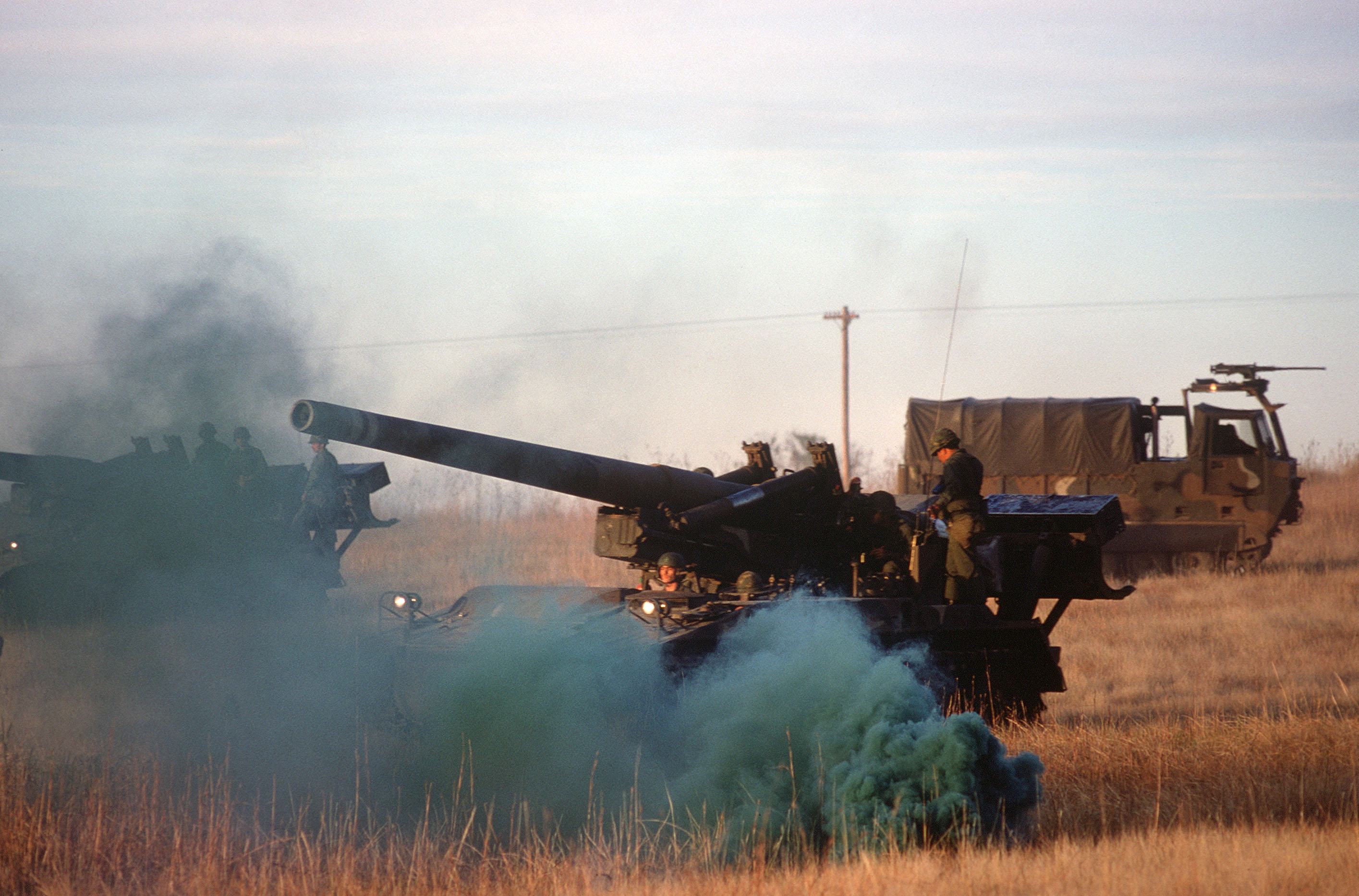 An M110 203 mm self-propelled howitzer is hidden by smoke during a training exercise. An M548 tracked cargo carrier is in the background.